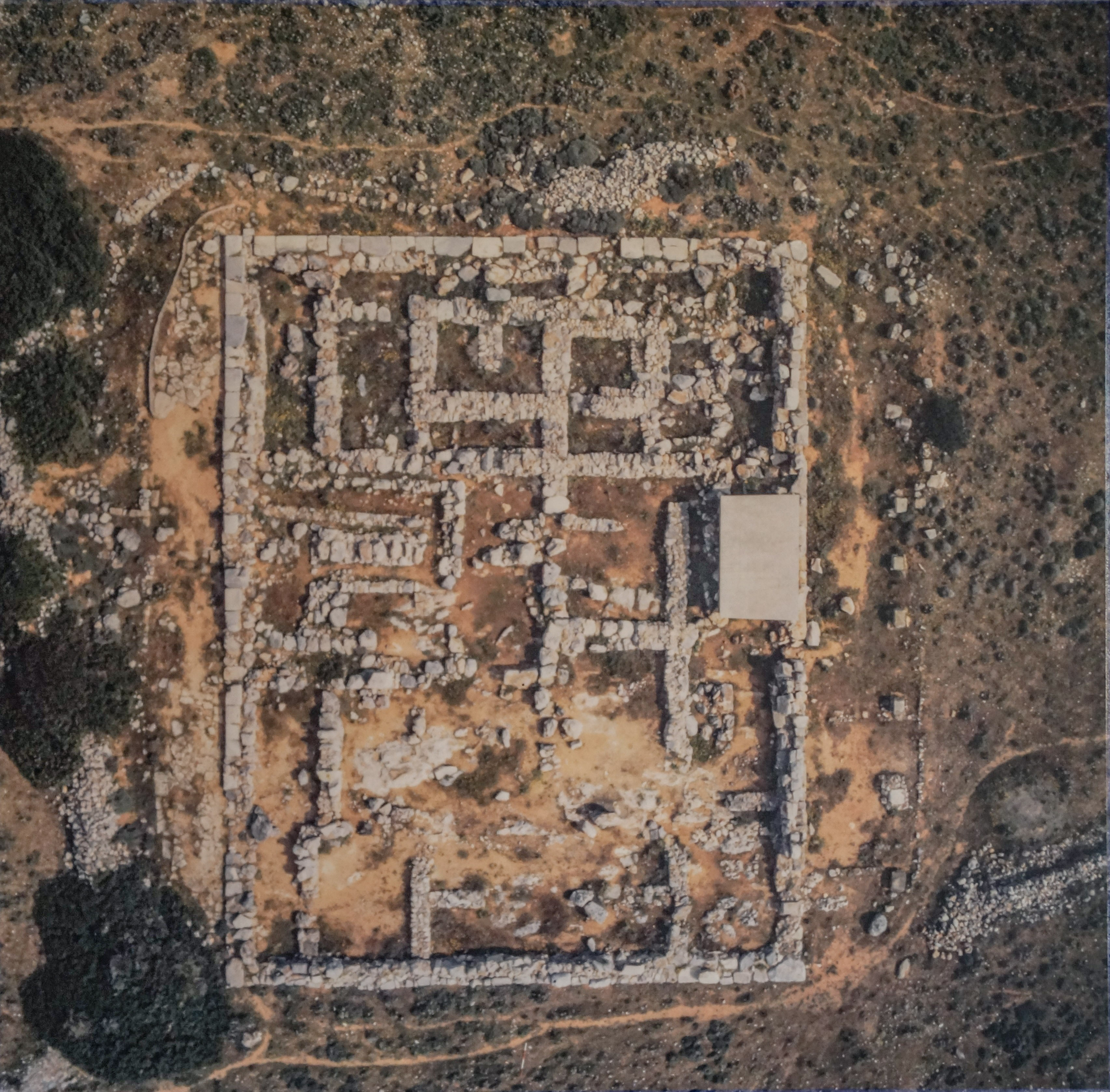 Malia, Crete: Aerial view of the necropolis of Chrysolakkos. Photo on display in the exhibition room of the archaeological site of the Palace of Malia.